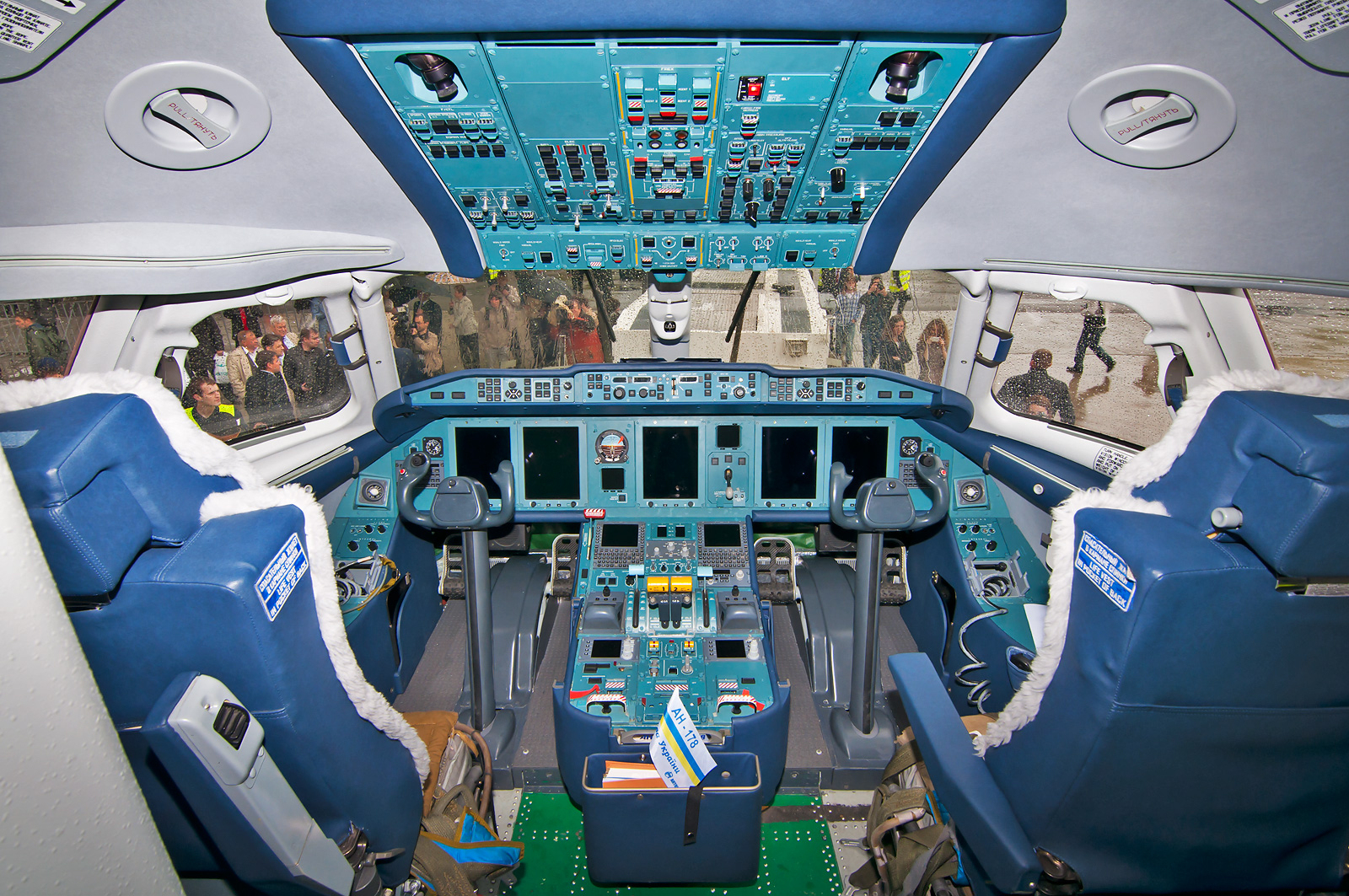 Antonov An-178 cockpit